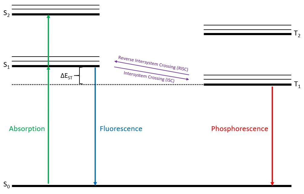 Photoluminescence pathways including photon absorption, fluorescence, and phosphorescence with associated energy levels of singlet and triplet states